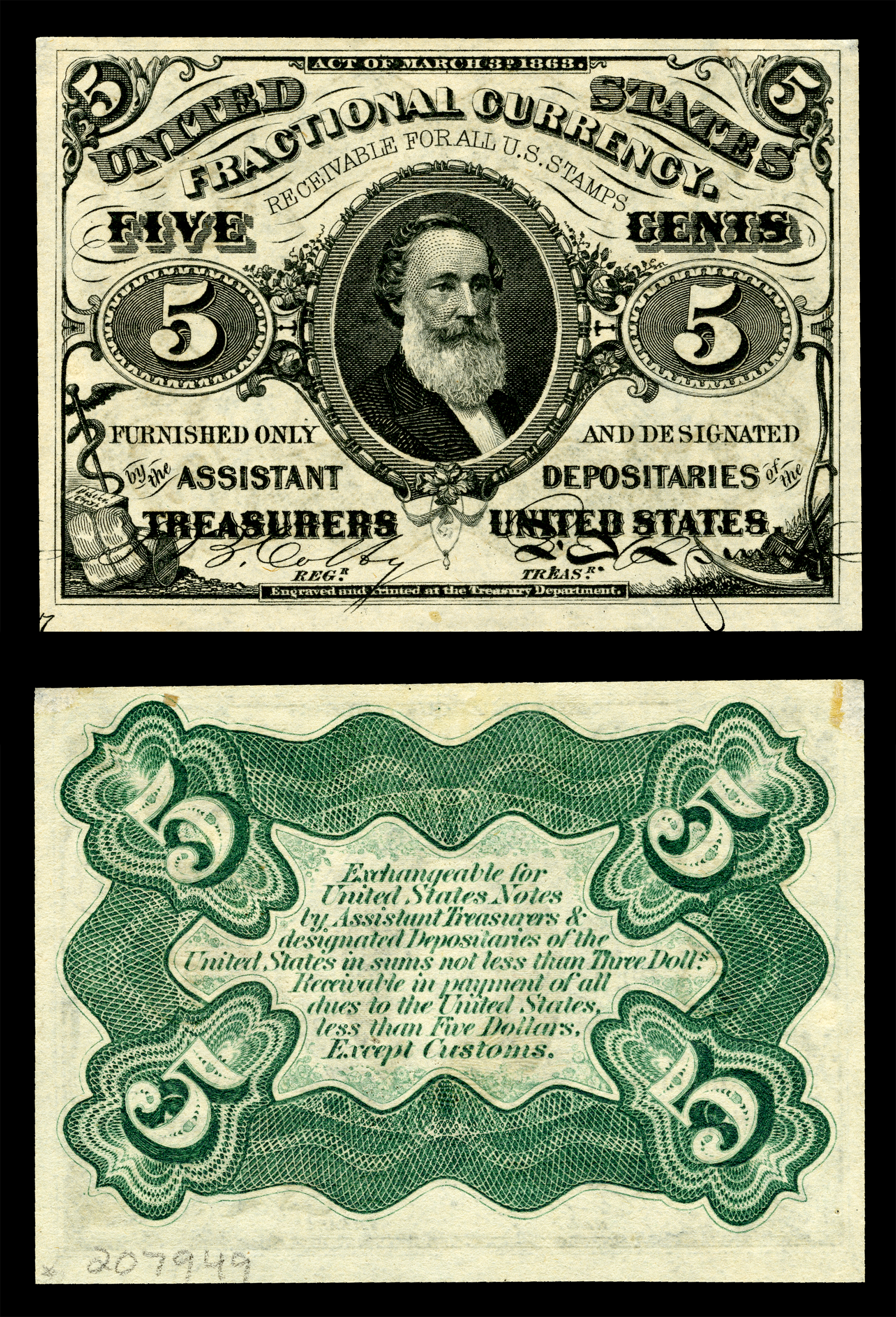 Spencer M. Clark, Supervisor of the Currency Bureau placed his own likeness on the five-cent U.S. Fractional currency note leading directly to legislation prohibiting the depiction of any living person on U.S. currency. Fractional Currency was introduced by the United States Federal Government following the Civil War. These notes were in use between 21 August 1862 and 15 February 1876, and could be redeemed by the U.S. Postal Service for the face value in postage stamps. Fractional notes were issued in 3, 5, 10, 15, 25, and 50 cent denominations.